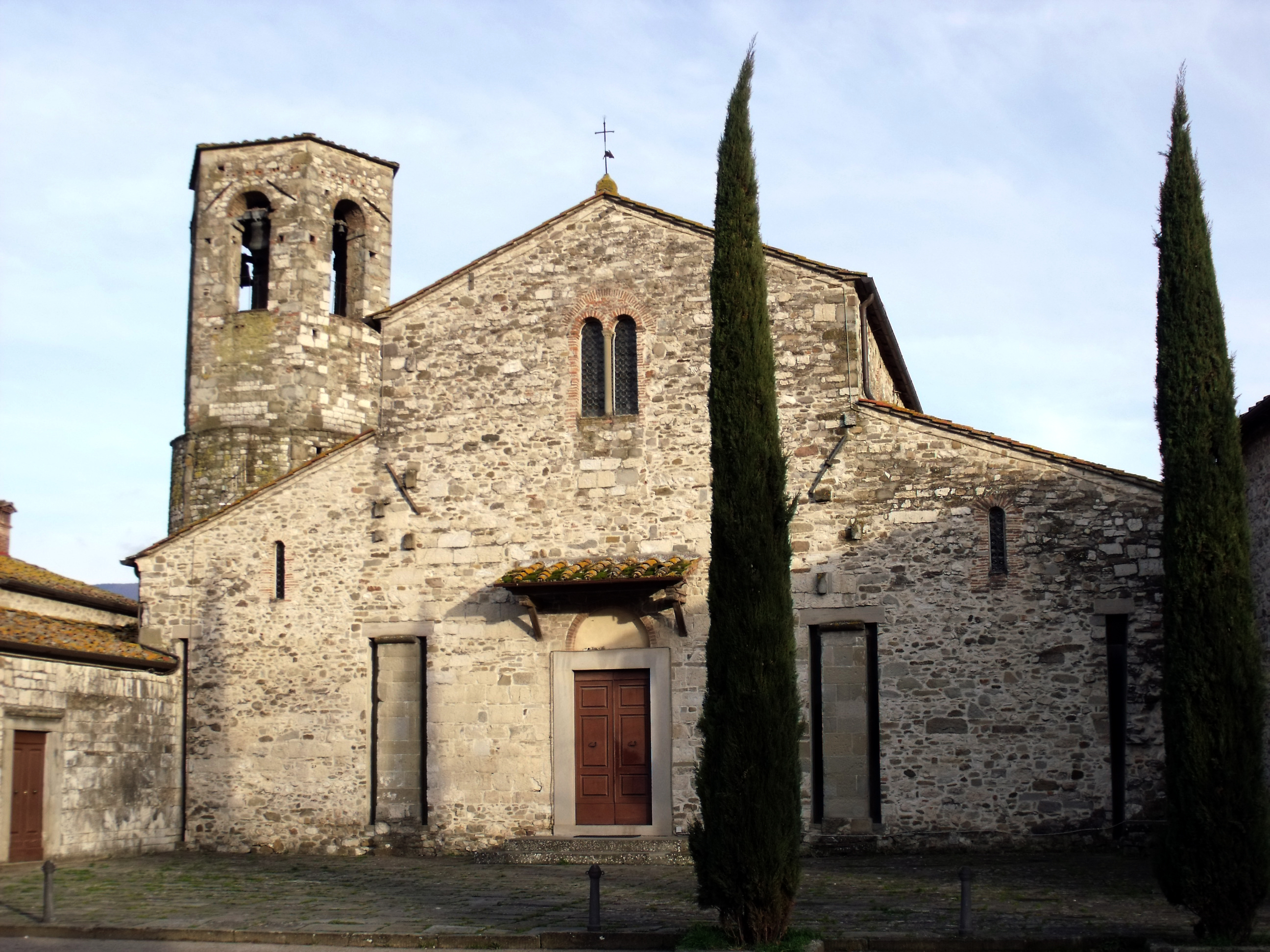 Pieve of Sant’Antonino Martire a Socano, Church in Socano (Suburb of Castel Focognano), Casentino, Province of Arezzo, Tuscany, Italy